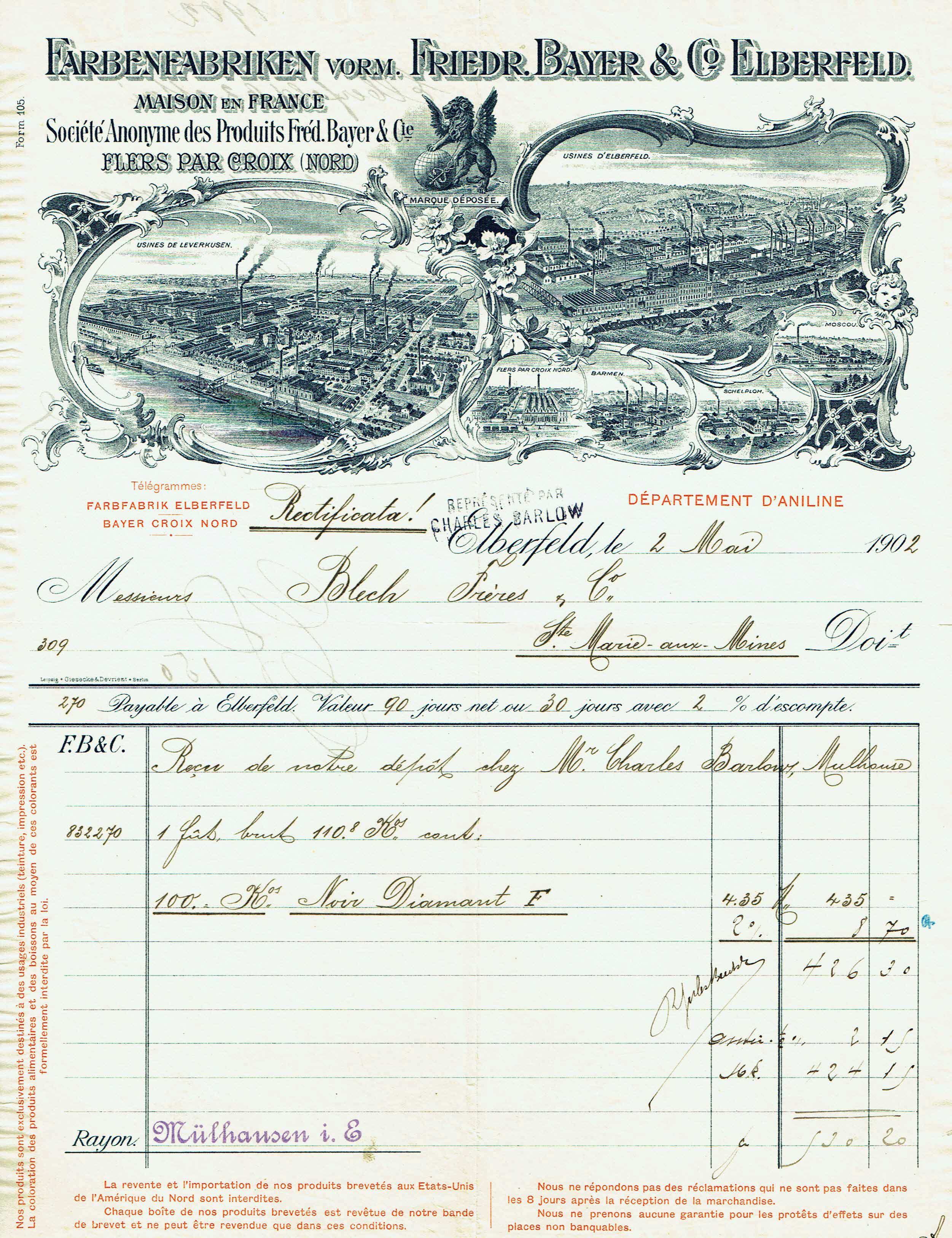 Bill from the Farbenfabriken vorm. Friedr. Bayer & Comp, issued 2. May 1902 in Elberfeld